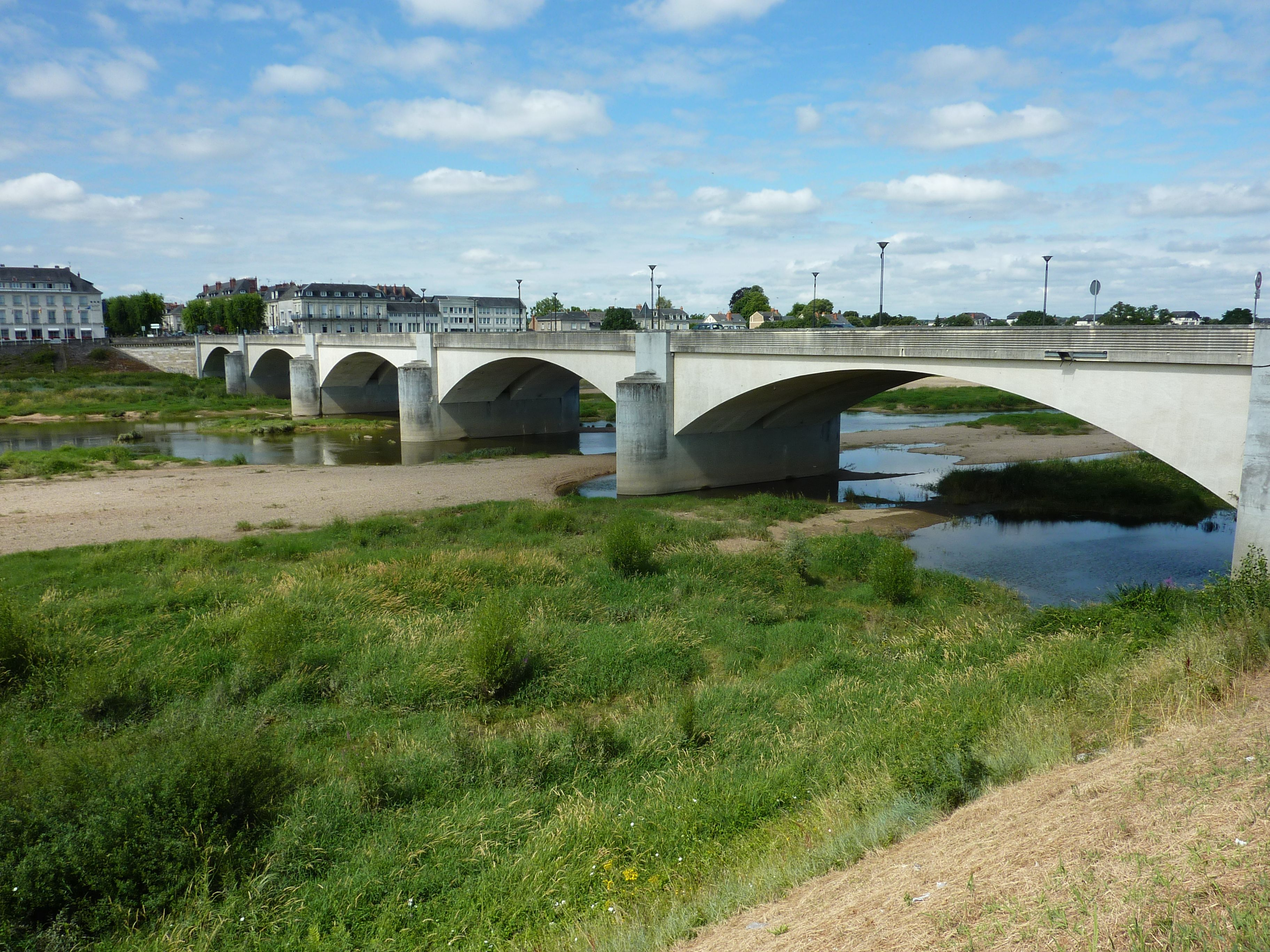 The Cadets Bridge at Saumur in France